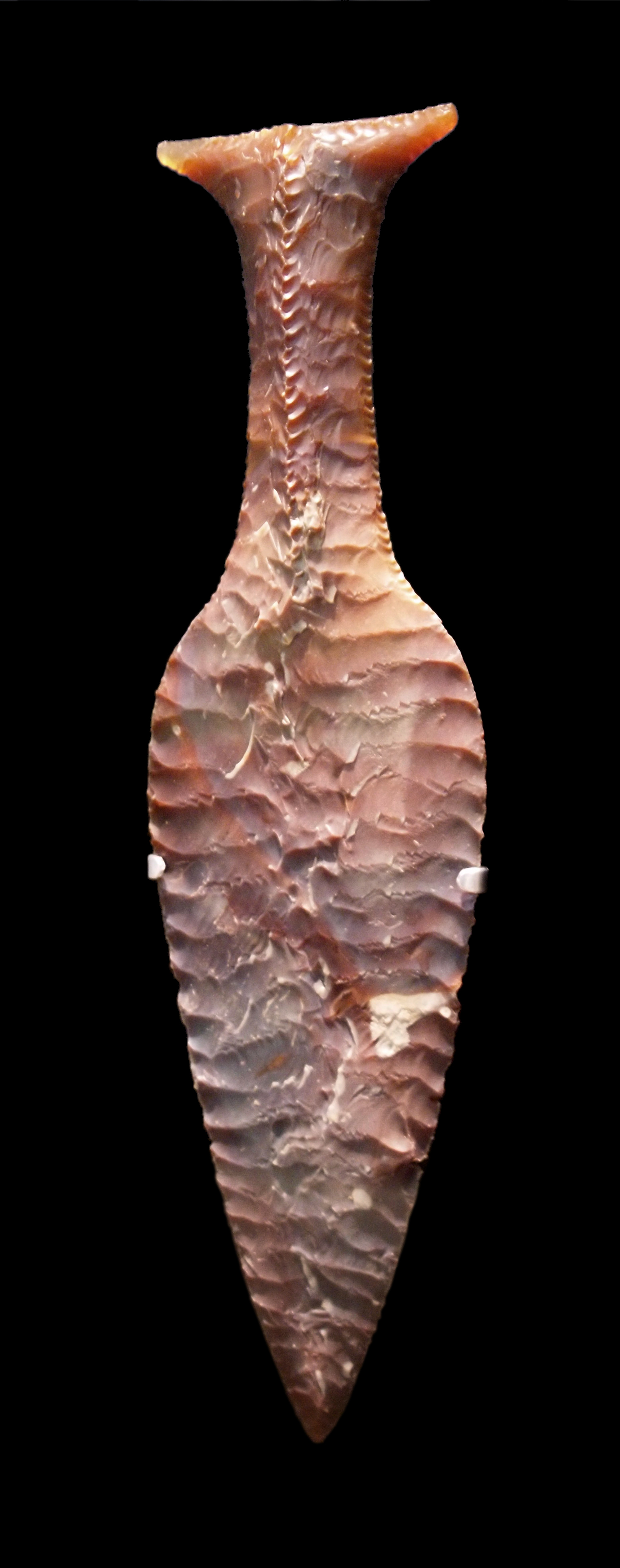 The Hindsgavl dagger is a Late Neolithic flintdagger found in Hindsgavl, Middelfart Parish (Middelfart Sogn), Vends hundred (Vends herred), former Odense County (Odense Amt), the island Funen, Funen County (Fyns Amt), Denmark. The original picture is taken at the National Museet - The National Museum - Copenhagen Denmark during the Wikipedia Loves Nationalmuseet by Kim Bach. The backgound is removed in Photoshop by Achird at 21 April 2012.